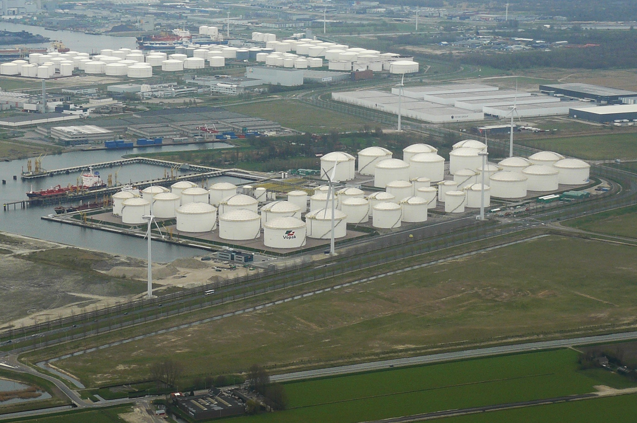 Vopak oil terminal at Afrikahaven in Amsterdam, photo taken from aircraft on April 8th, 2012, looking southeast.